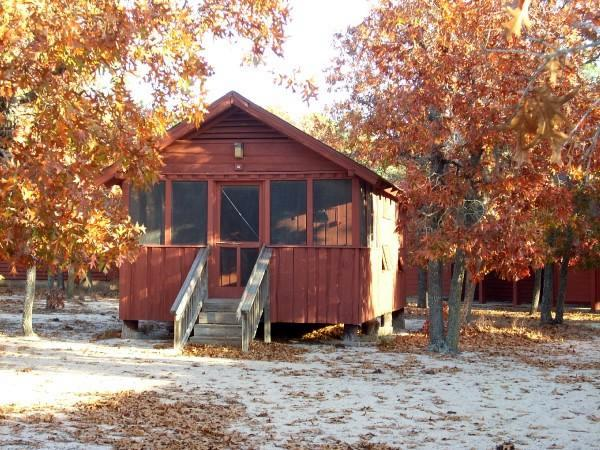 A cabin at Singletary Lake State Park